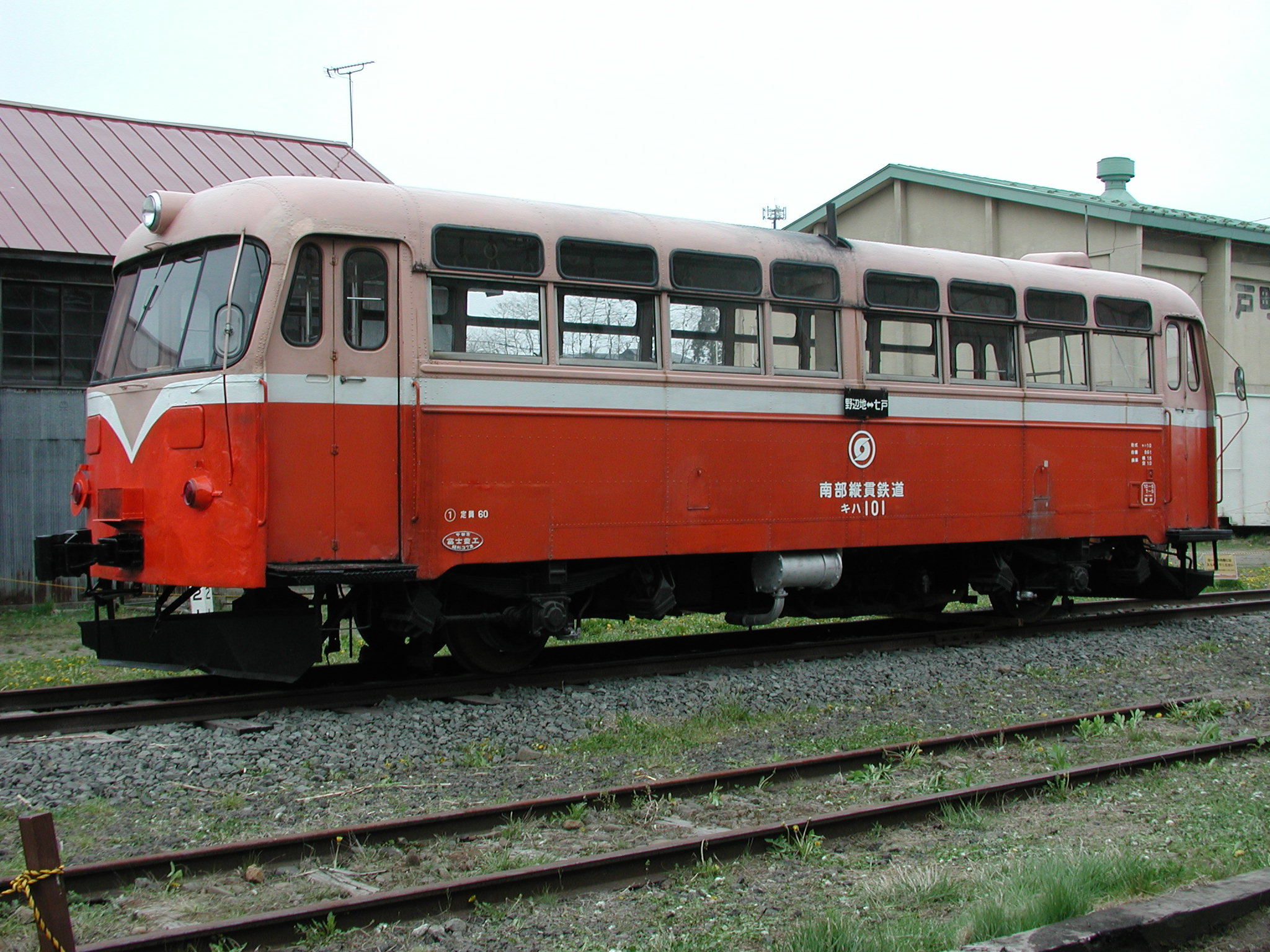 Nanbu Jukan Railway Kiha 101 railbus preserved at Shichinohe Station